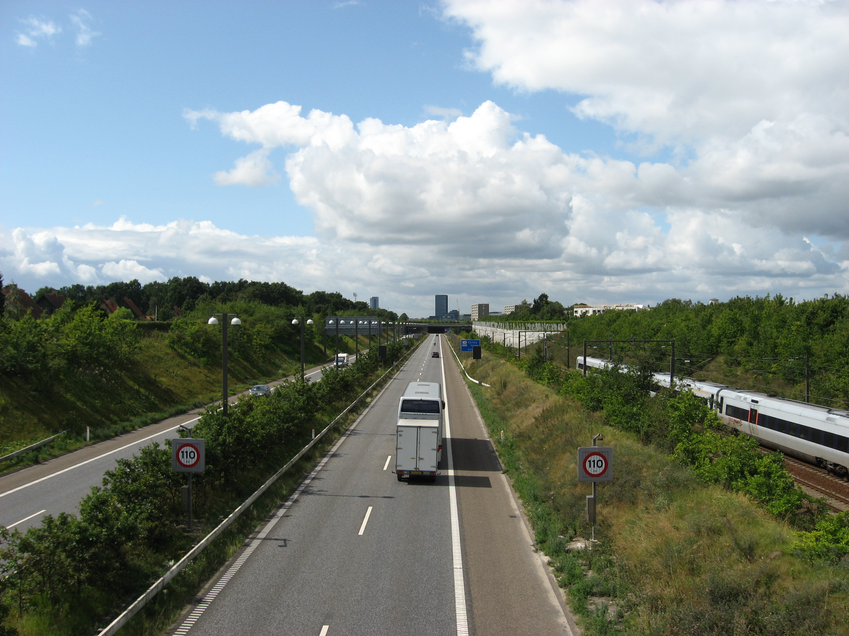 E20 motorway near Copenhagen Airport.